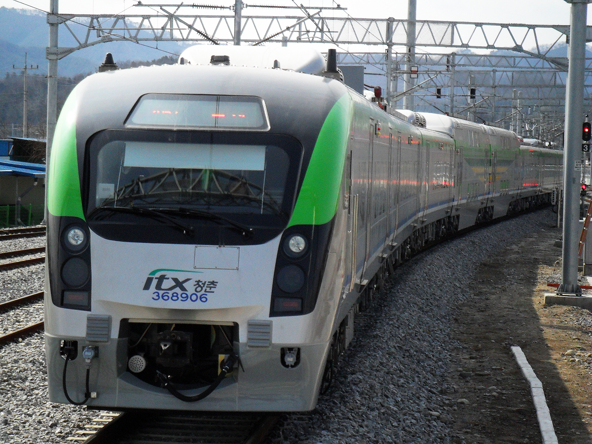 KORAIL 368000series EMU for 'ITX-Cheongchun'(6th train set)